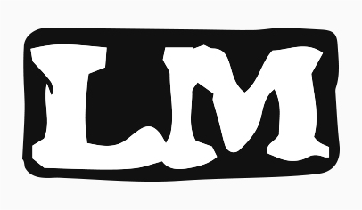 Leopold Eduard Michelsen goldsmith sign